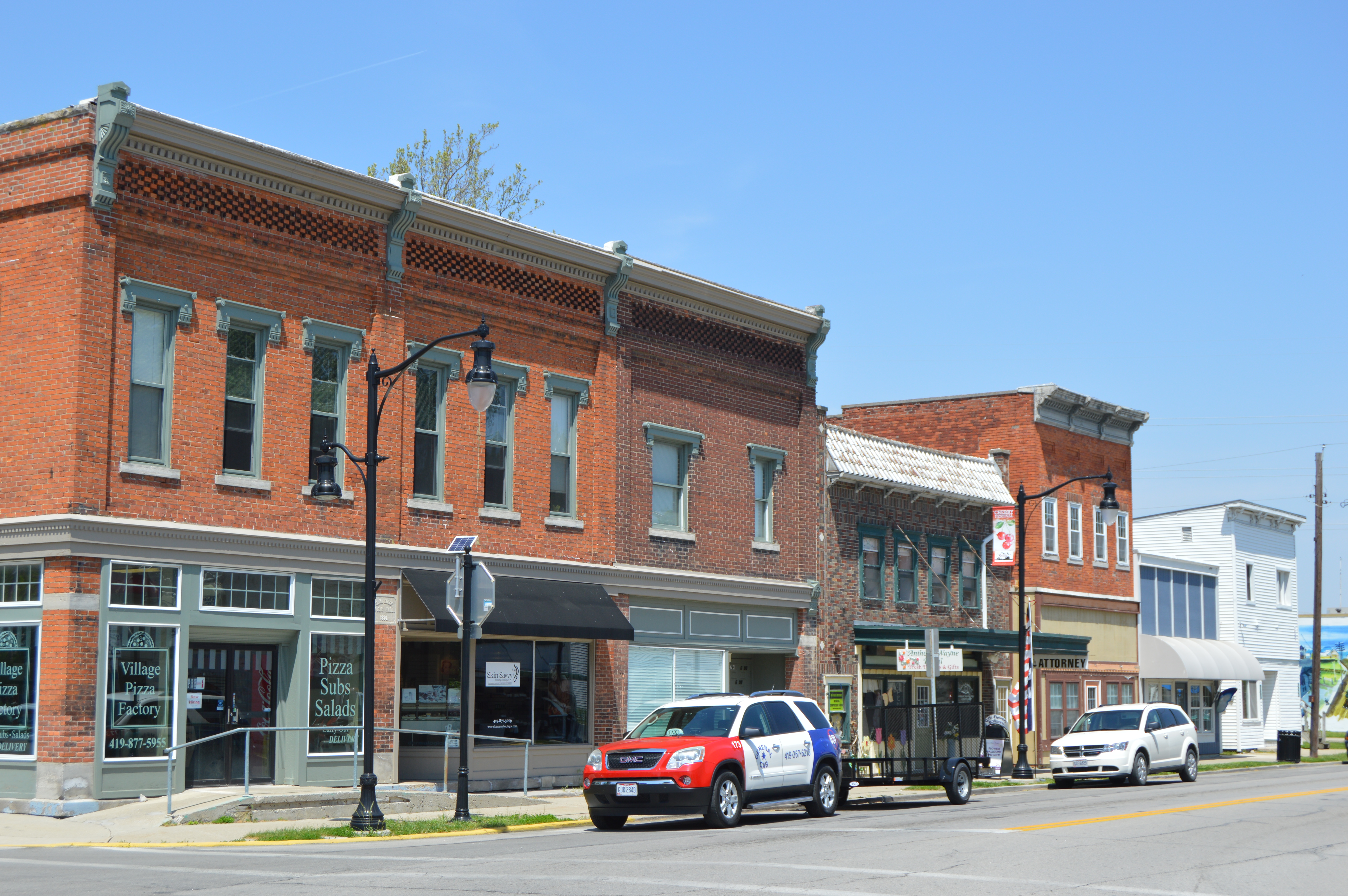 Buildings on the western side of Providence Street (State Route 64) at the Waterville Street intersection in central Whitehouse, Ohio, United States. The nearest building, on the left, is the former C.M. Kings Music Hall, built in 1890.